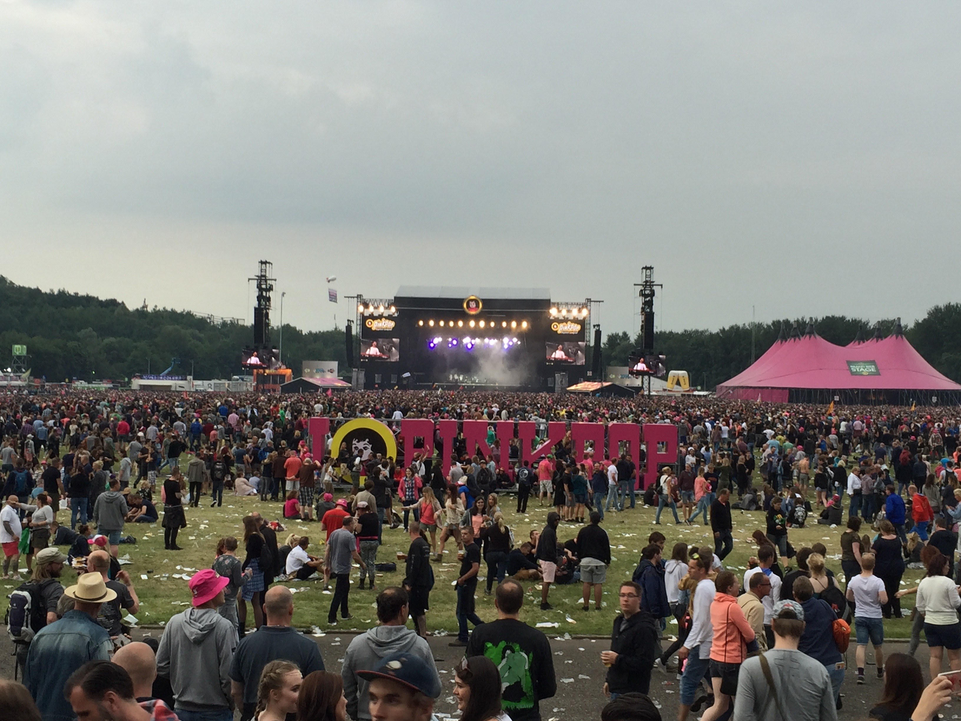 Pinkpop 2016 view to Mainstage